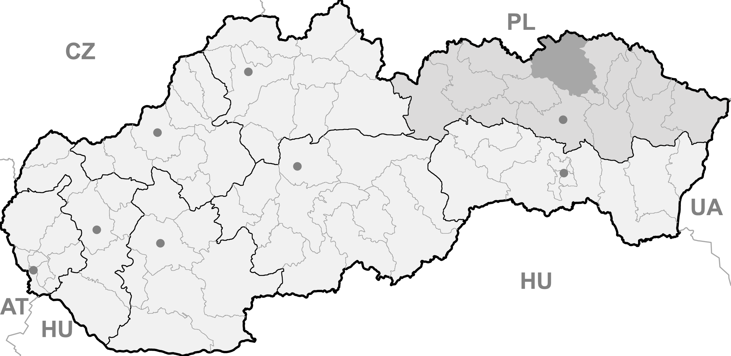 Map of Slovakia, Bardejov district and Presov region highlighted